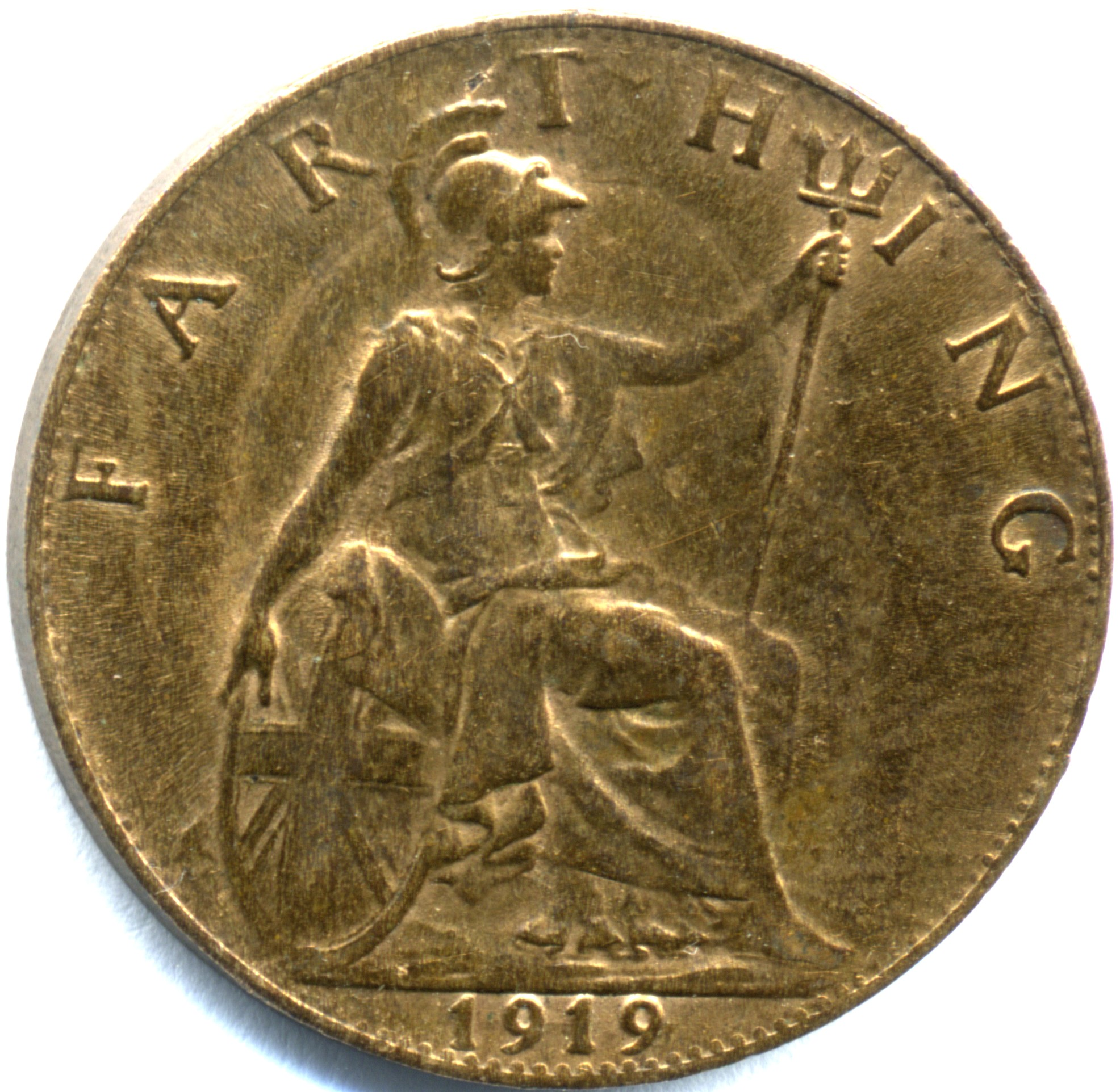 British Farthing 1919 reverse